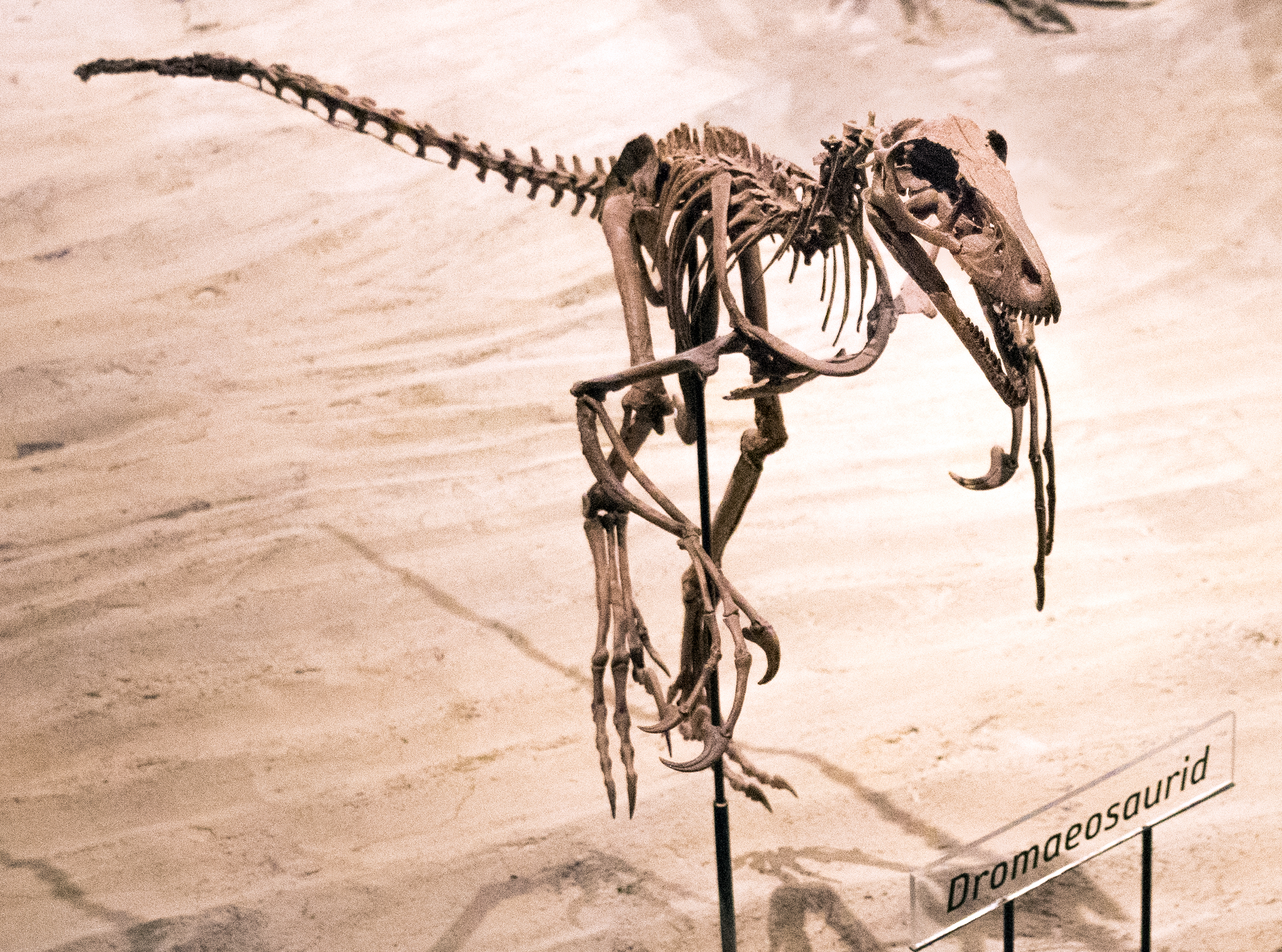 Utah Museum dromaeosaurid, nicknamed "Julieraptor".[1]